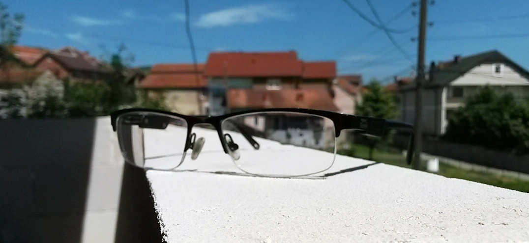 SYZE ME DIOPTRI